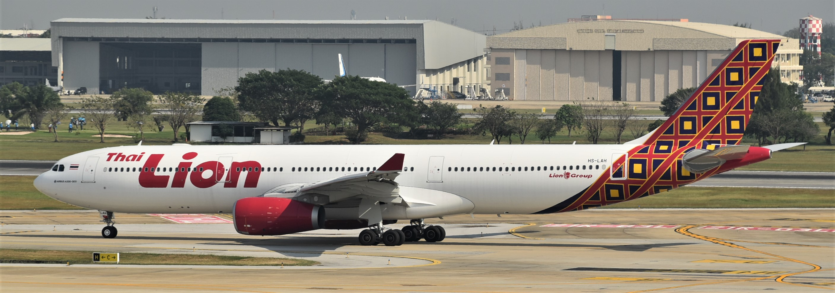 Airbus 330/3 of Thai Lion Air at Bangkok-DMK, Thailand, 13/01/18.